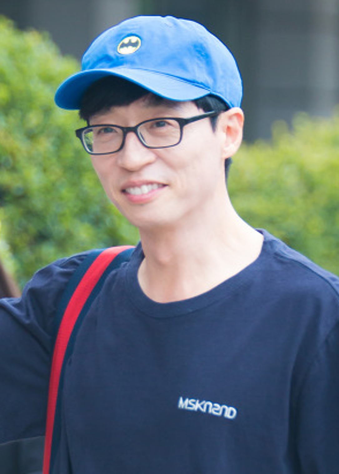 Yoo Jae Suk going to work at Happy Together on August 19, 2017.